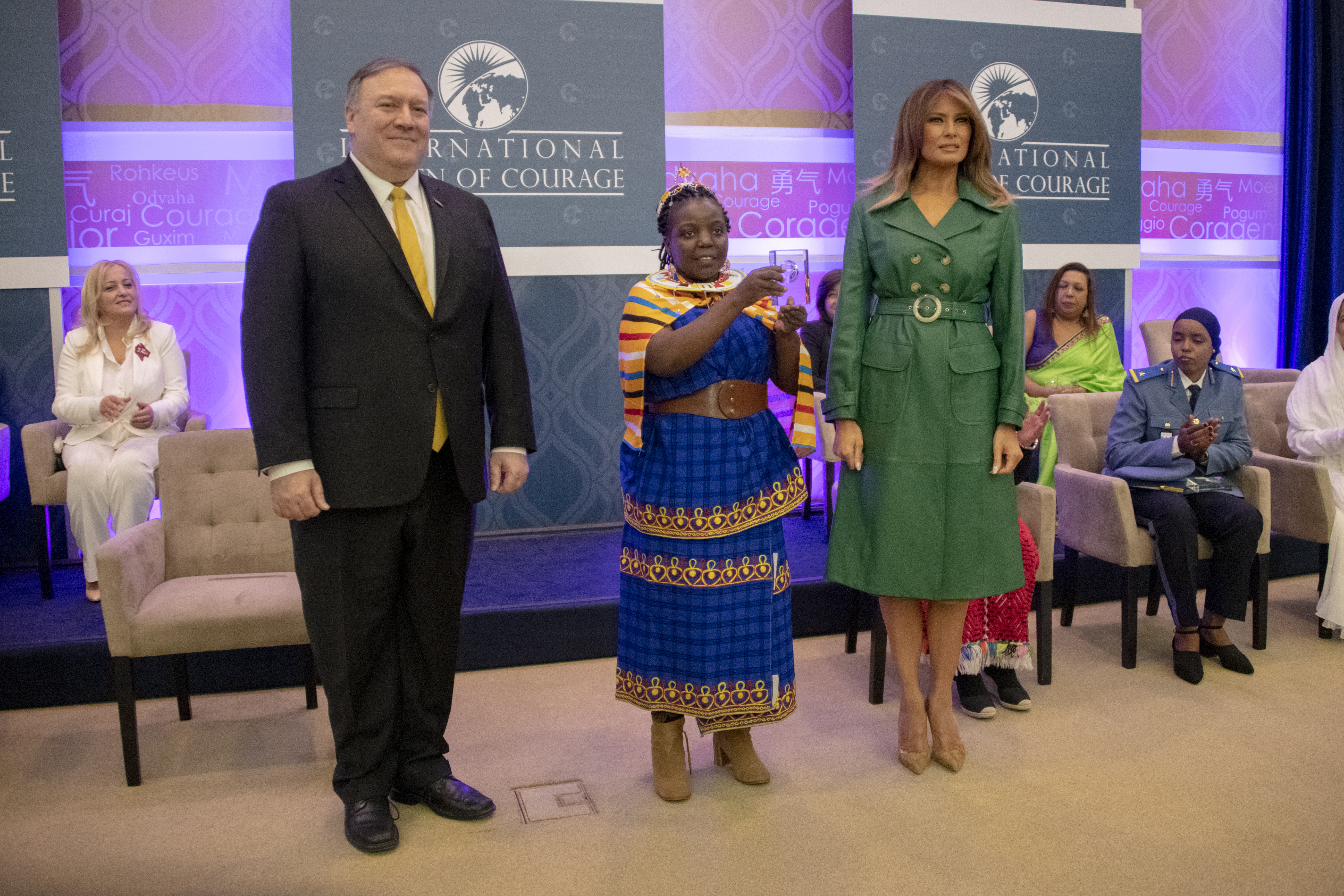 U.S. Secretary of State Michael R. Pompeo and First Lady of the United States Melania Trump present Anna Aloys Henga from Tanzania with the 2019 International Women of Courage (IWOC) Award during the ceremony at the U.S. Department of State in Washington, D.C., on March 7, 2019. [State Department photo by Ron Pryzsucha/ Public Domain]